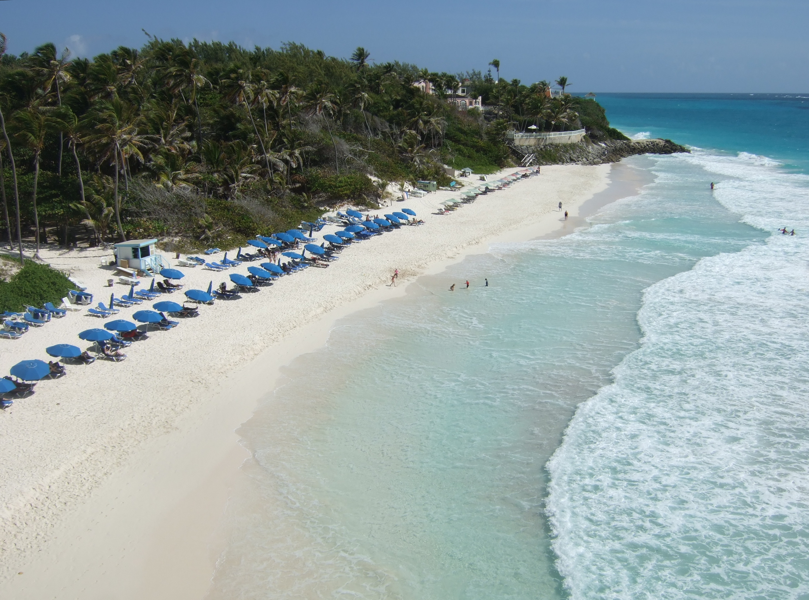 Crane Beach is very safe but boats arenot usually moored here.